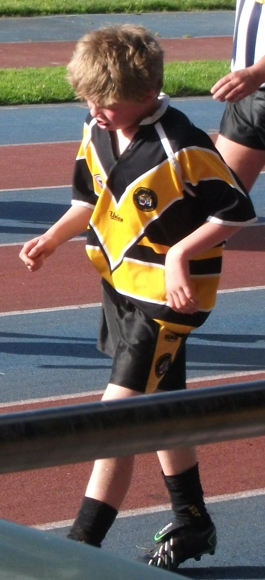 Northcote Tigers Junior player at the Auckland Rugby League grand finals on 28 August 2010